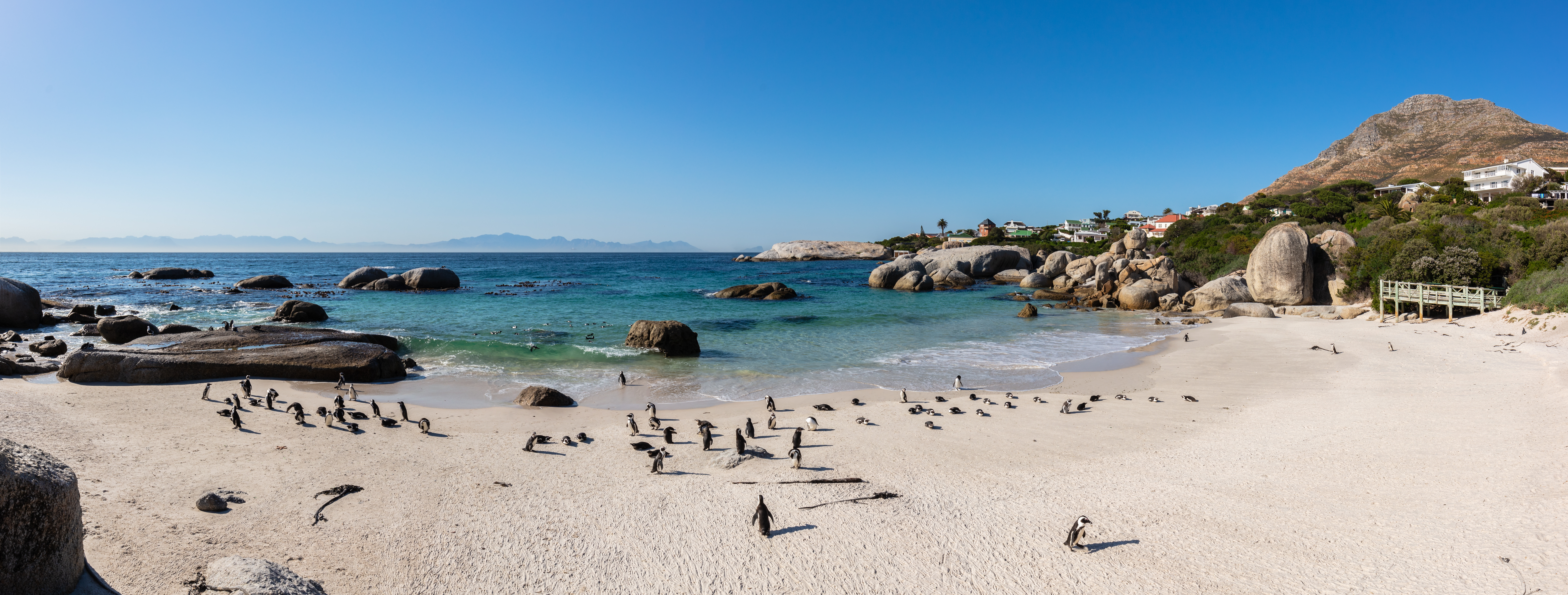 Panoramic view of the famous African penguins (Spheniscus demersus) colony in Boulders Beach, Simon's Town, South Africa.